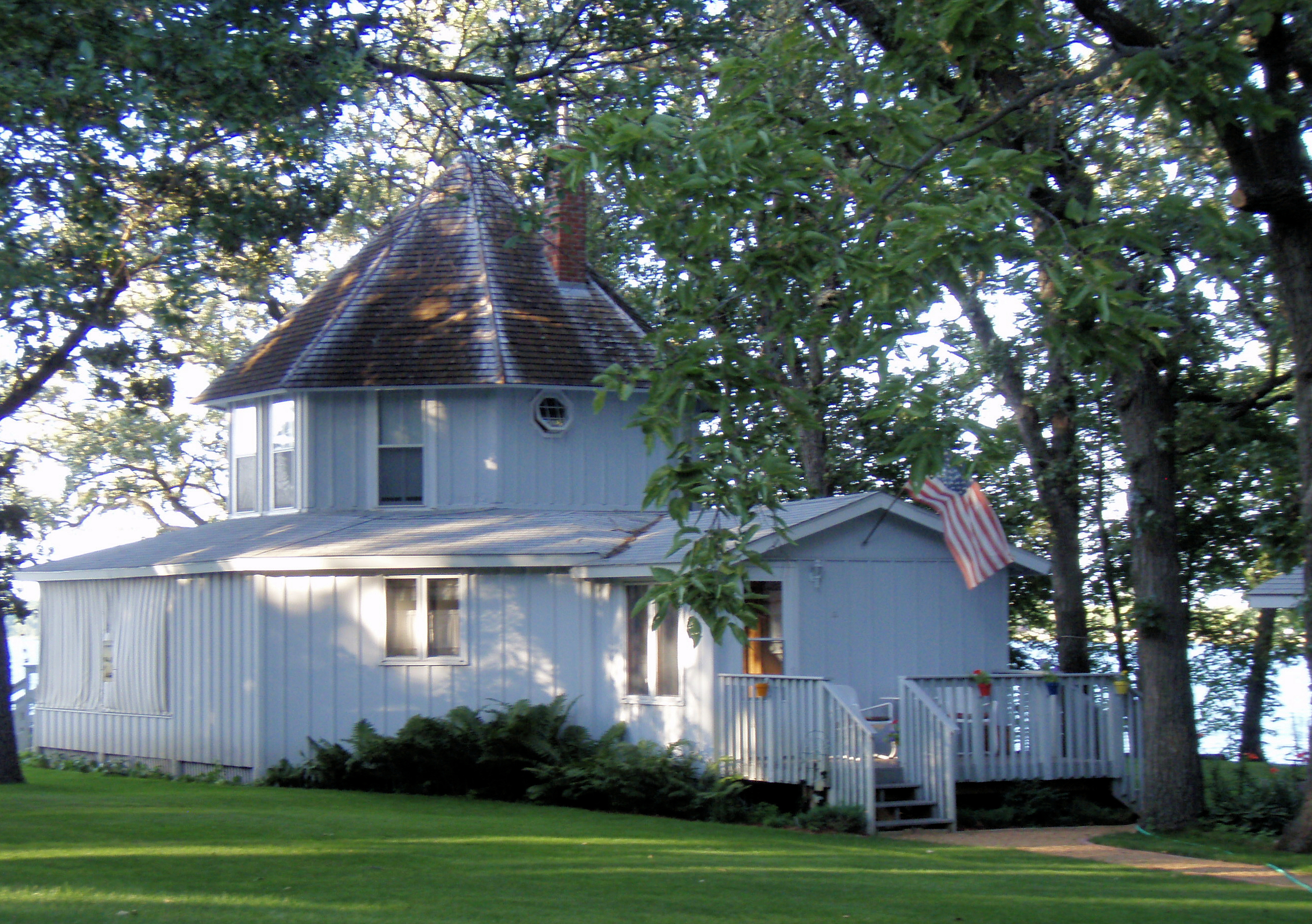 Brightwood Beach Cottage in Litchfield, Minnesota, listed on the National Register of Historic Places.